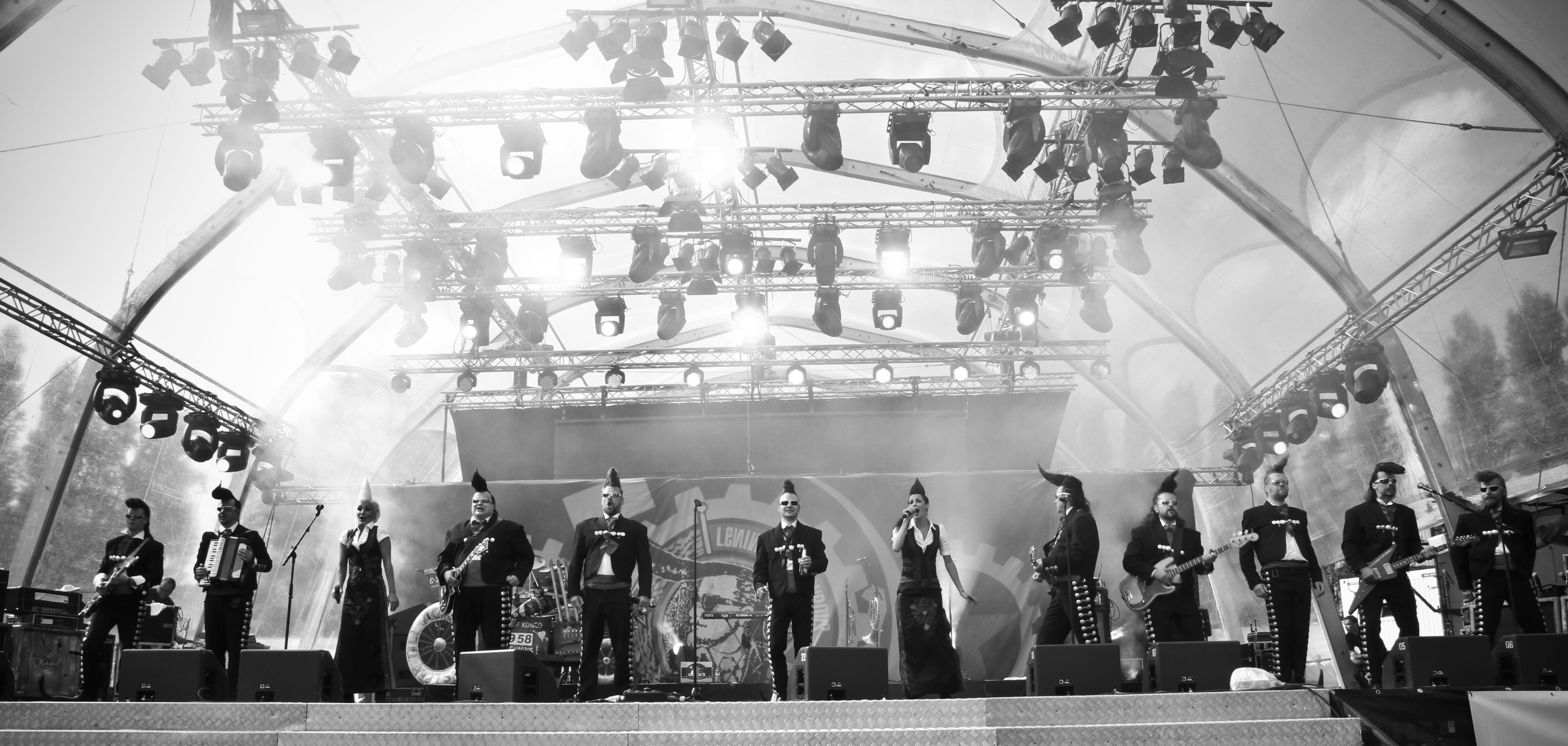 Leningrad Cowboys in Berlin 2nd of September 2011